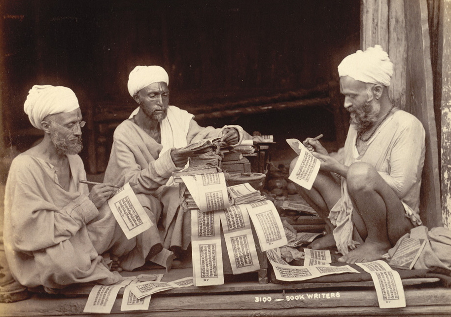 Three Hindu priests writing religious texts in the princely state of Jammu and Kashmir, taken by an unknown photographer in the 1890s. This three members of this group of Brahmins, members the priestly caste, are engaged in copying out sacred texts from which they read as part of their duties at ceremonies and festivals.